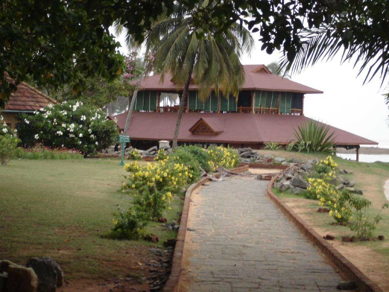 floating restaurant at veli